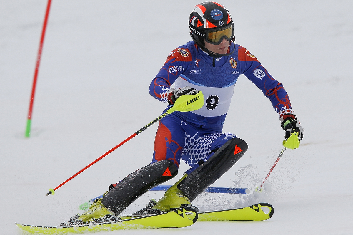 ХОРОШИЛОВ Александр (Россия). Горнолыжный спорт, слалом, мужчины. III Зимние Всемирные военные игры. Горнолыжный центр «Роза Хутор», Сочи, Россия. 25 февраля 2017. Фото Andrey Golovanov/CISM2017KHOROSHILOV Alexander (Russia). Alpine Skiing, Slalom, Men. 3rd CISM World Winter Games. Rosa Khutor Alpine Skiing Centre, Sochi, Russian Federation. February 25, 2017. Photo by Andrey Golovanov/CISM2017